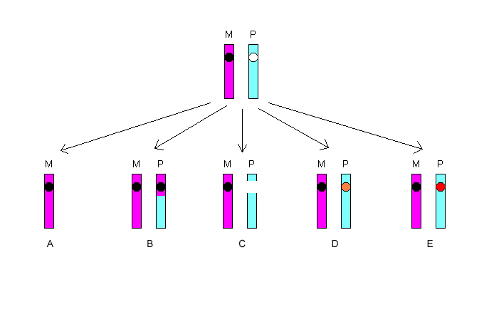 Loss of heterozygosity means that the another allele of the gene is lost. Then only already mutated allele is left. M=maternal chromosome, P=paternal chromosome. White circle=normal allele, black circle=mutated allele, orange circle=point mutation in the allele, red circle=allele is inactivated due to the epigenetic reason. Arrows show different malicious genetic happenigs. In A-C cases the loss of heterozygosity of the gene has happened and mechanisms are different. A=The another chromosome has been lost, B=The malicious recombination has happened and C=The deletion of the normal allele has happened. In D and E cases both alleles have been inactivated, but the heterozygosity remains.